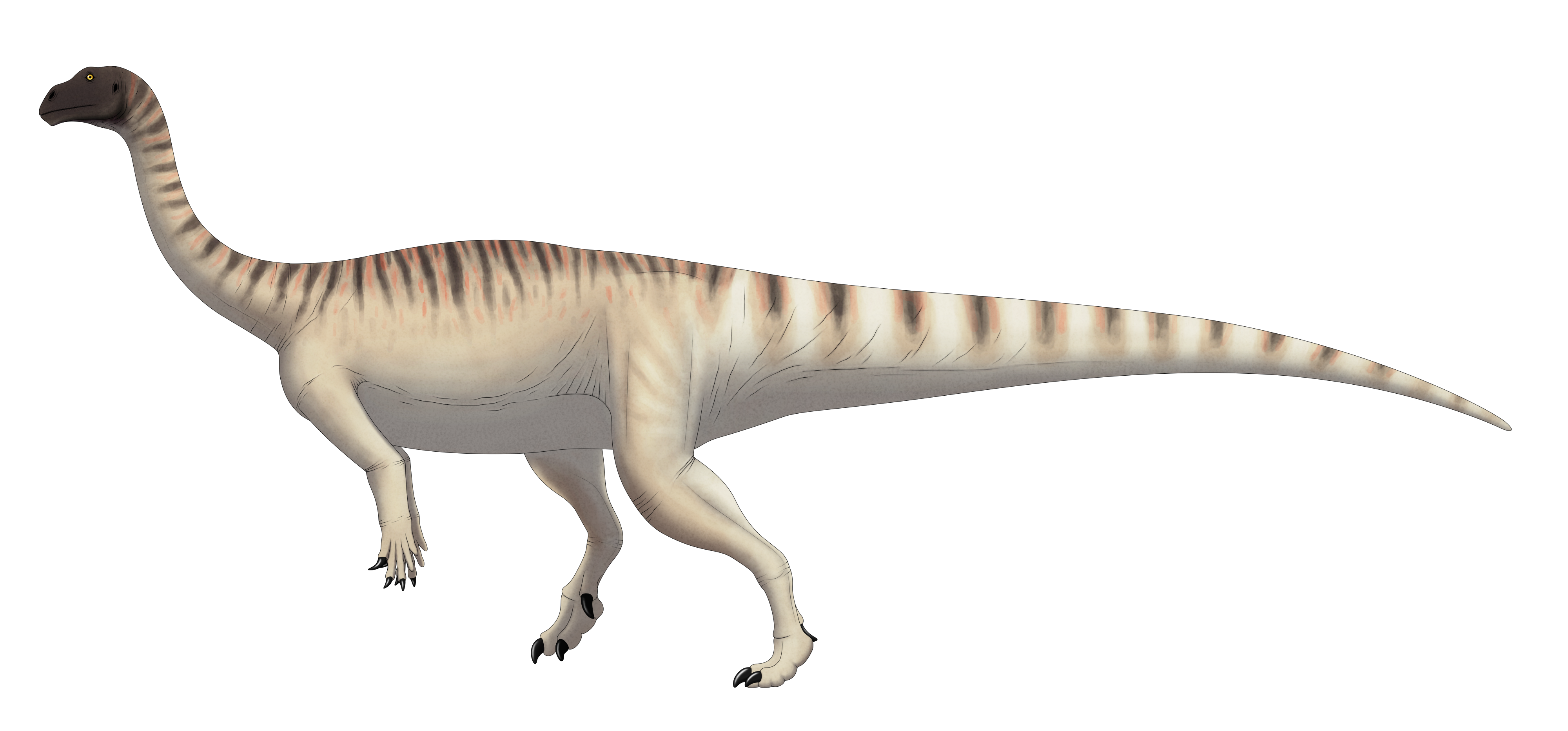 Life restoration of adult Mussaurus patagonicus based on the skeletal reconstruction from Otero et al. (2019).